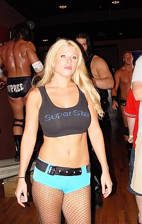 Krissy (real name Kristin Eubanks) at FCW wrestling show in Tampa Florida Photo by Rob Beukema